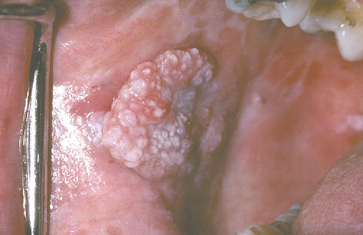 exofitic leukoplakia